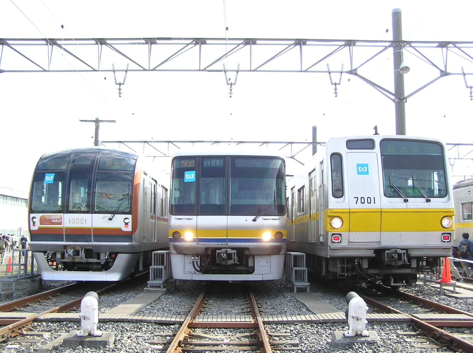 I don't understund English. I can use Japanese only. Sorry.撮影地Place of photo新木場検車区撮影の状況How to take一般公開時に敷地内で撮影When eventトリミングの有無Cropped or not非トリミングNot Cropped内容Description有楽町線の車両。左から10000系、07系、7000系。Trains of Yurakucholine.